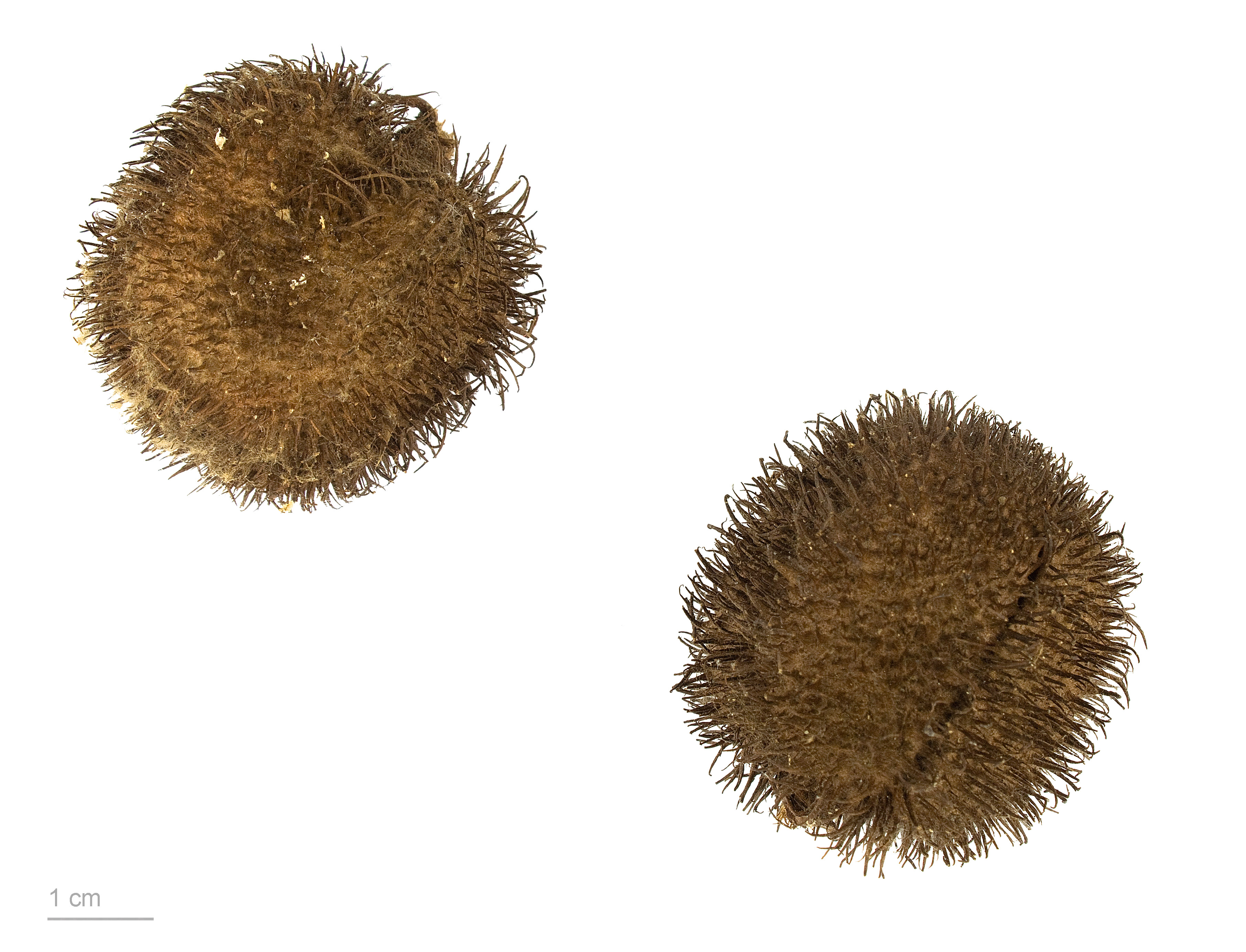 Achiote , fruits and seeds